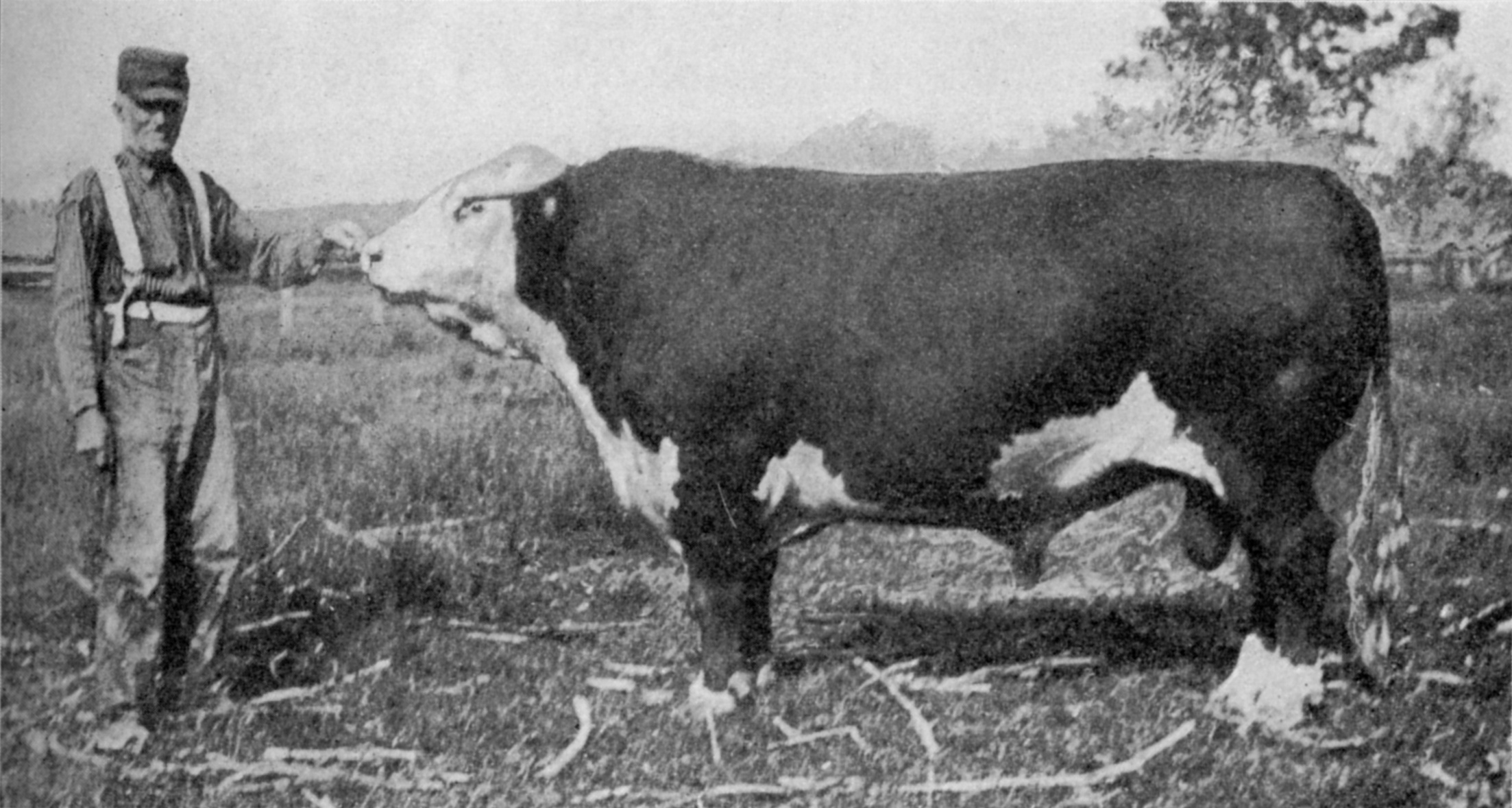 Earl of Shadeland 22nd, Hereford bull circa 1900 Original photo caption: FIG. 81. Earl of Shadeland 22d 27147, by Garfield 7015. The champion Hereford bull of 1888, known as "The Record Breaker." This bull, one of the famous ones of his day, is held by Mr. John Lewis, long the successful manager of the great Shadeland herd at La Fayette, Indiana, now dispersed. Photograph by the author